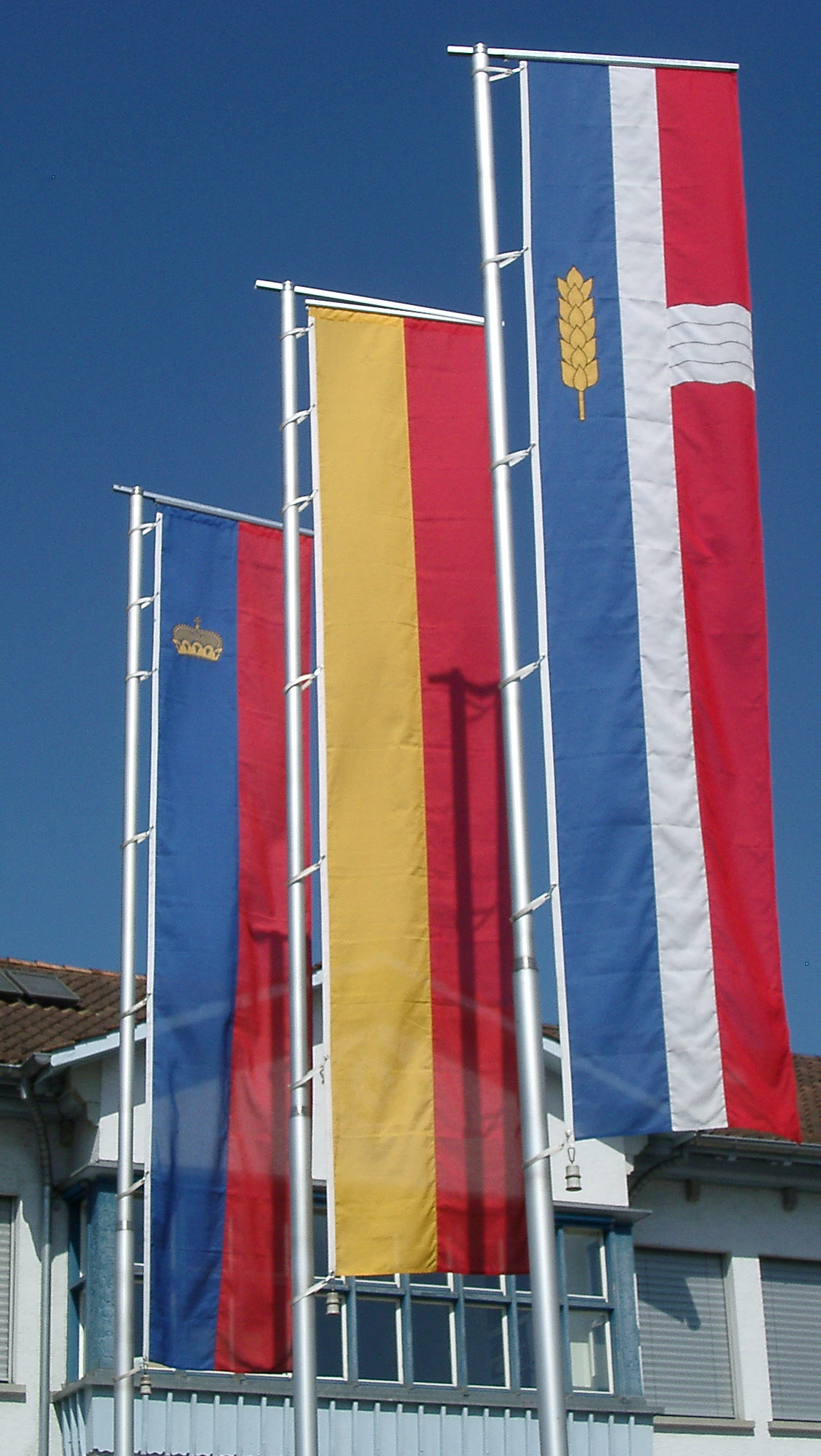 Flags hoisted in front of town hall of Schaan (Liechtenstein), on national holiday, 15 August 2009 (from left): national flag, flag of the princely house, municipal flag of Schaan